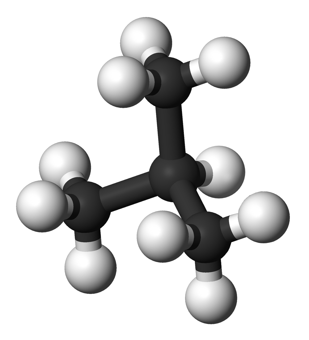 Ball and stick model of the isobutane molecule.